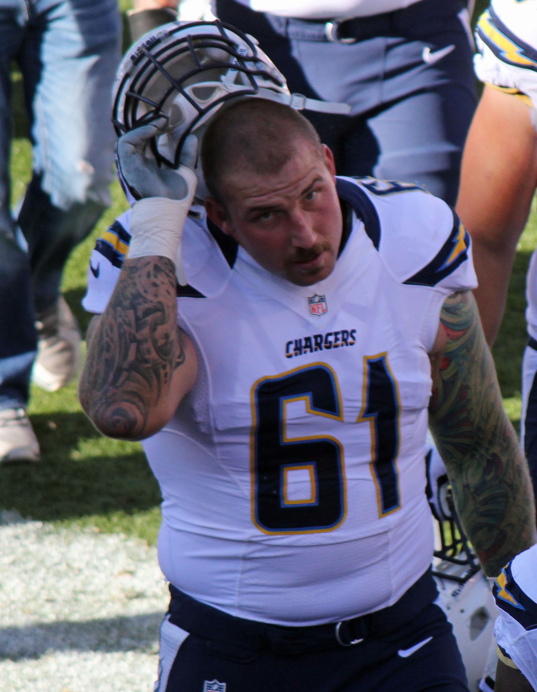 Nick Hardwick, a player on the National Football League.